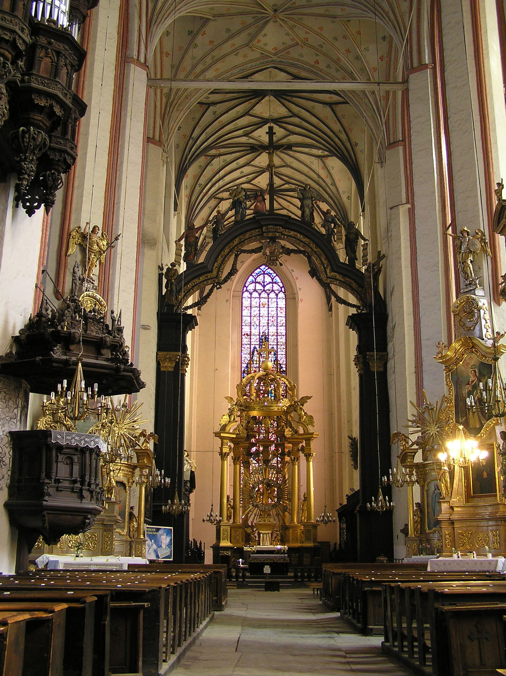 Toruń, church of Assumption of Blessed Virgin Mary, interior looking east